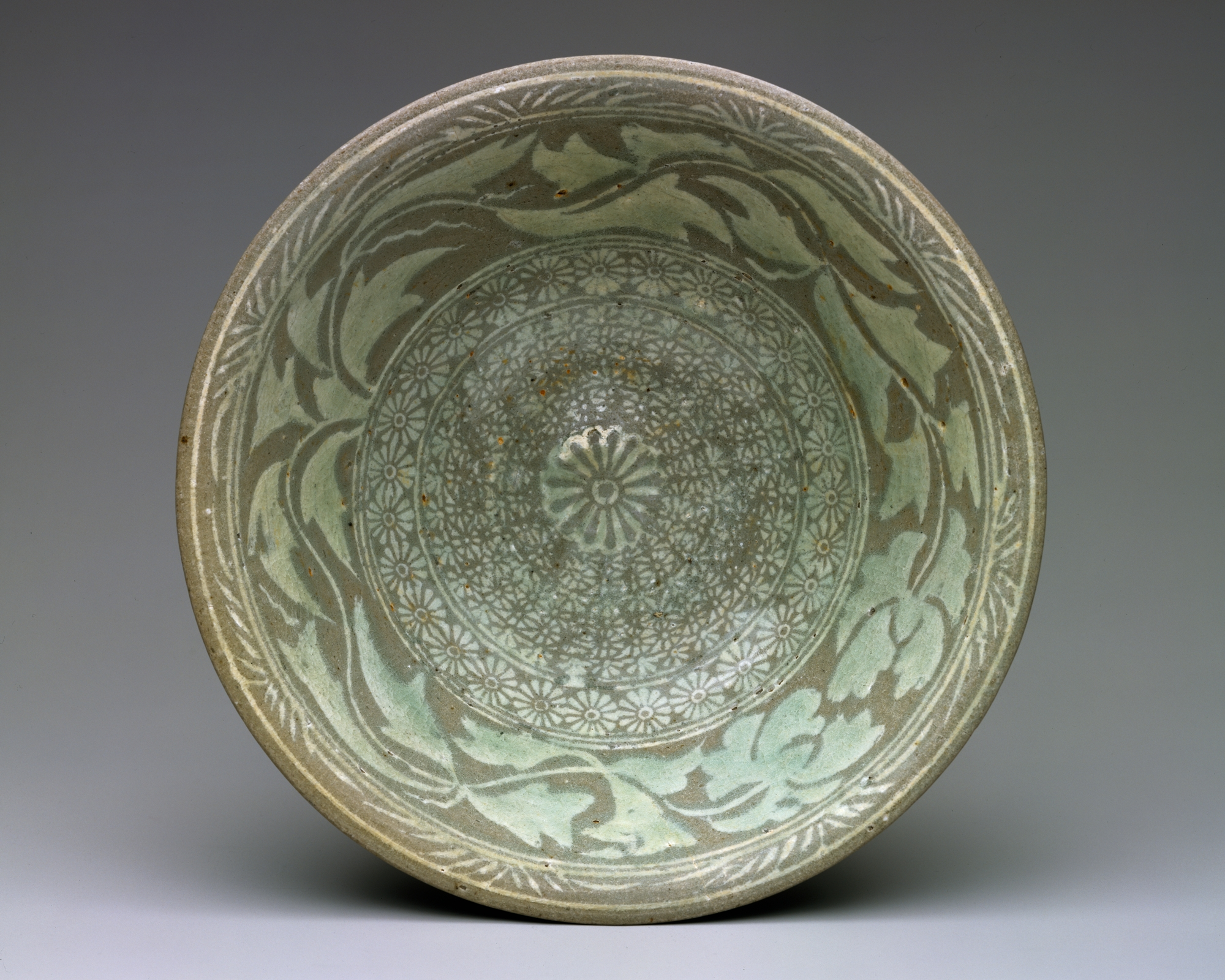 Korea; Bowl; Ceramics